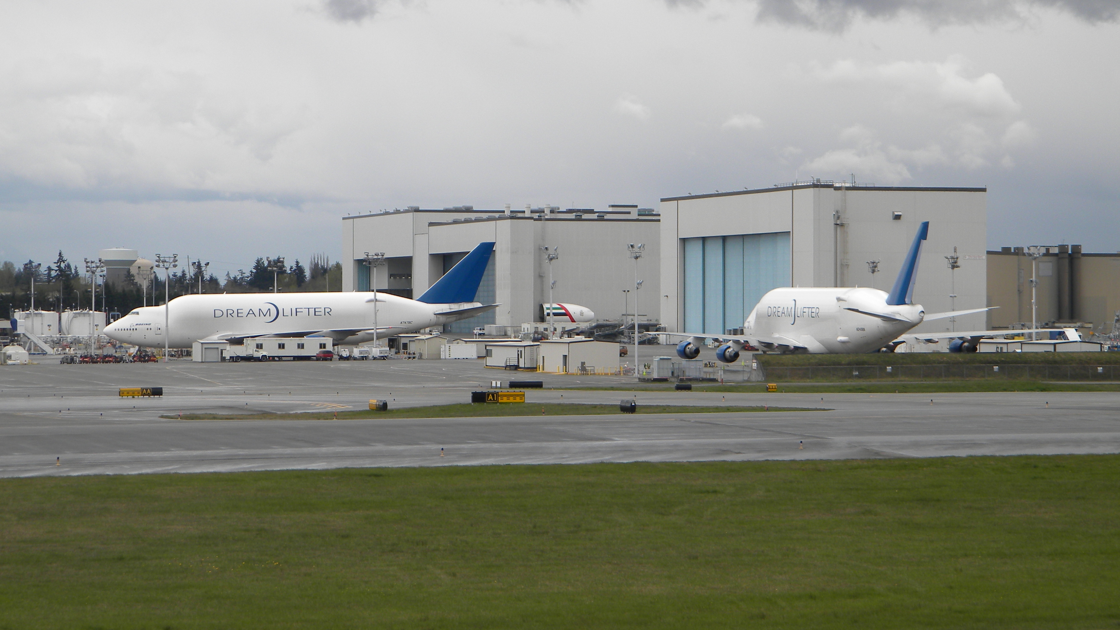 Two Dreamlifters